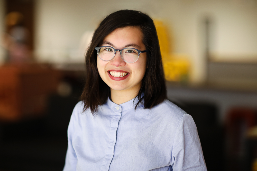 Photo for Wikimedia Foundation staff and contractors page.